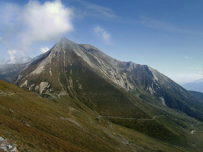 Mount Francais Pelouxe and Pelvo (Orsiera group) seen from Colle delle Finestre (TO, Italy) Picture taken and edited by user Idefix september 2006